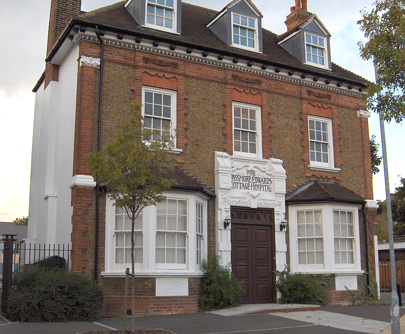 Passmore Edwards Cottage Hospital, Acton, W3. Built c. 1900.